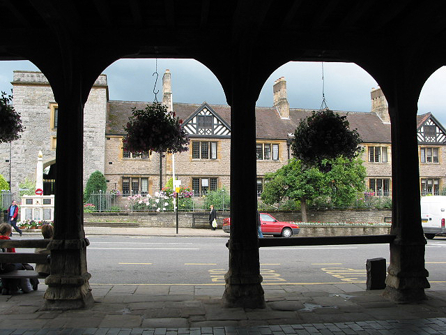 St Katherine's Hospital from the Market Hall, Ledbury A stormy day and the perfect place to shelter.